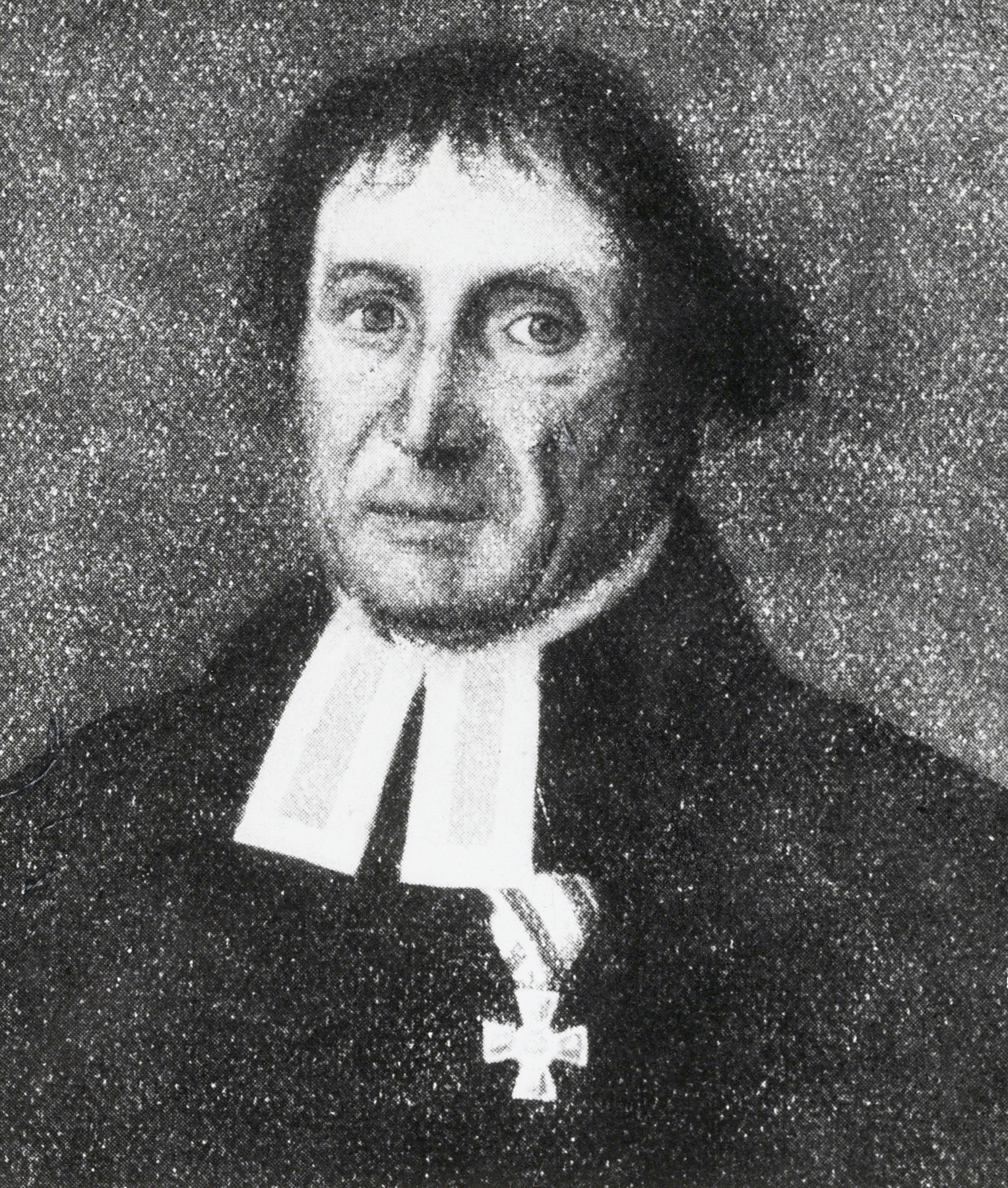 Portrait of Ehregott A. Ch. Wasianski (1755–1831)